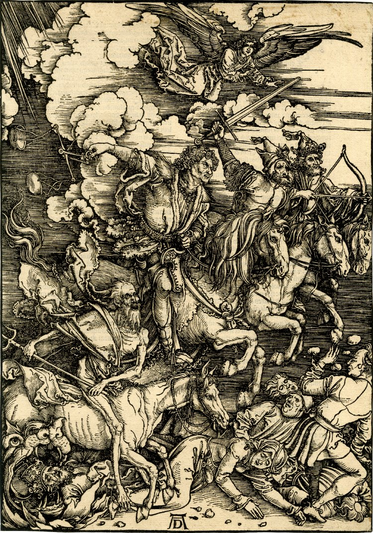 The four horsemen of the Apocalypse